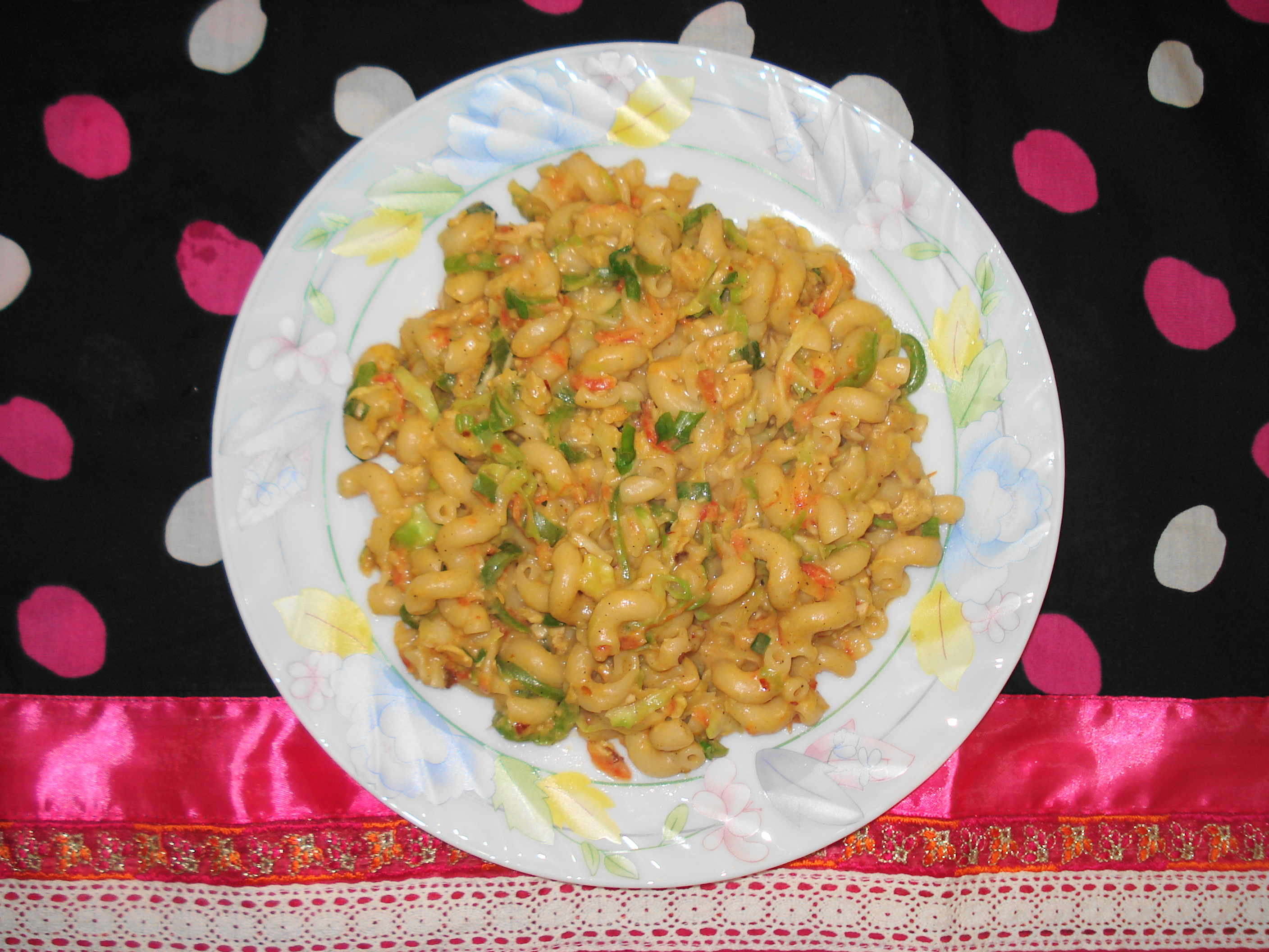 Macaroni